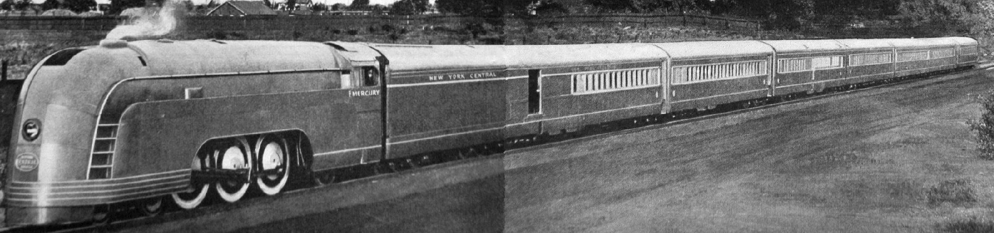 Photo of the New York Central's Mercury.